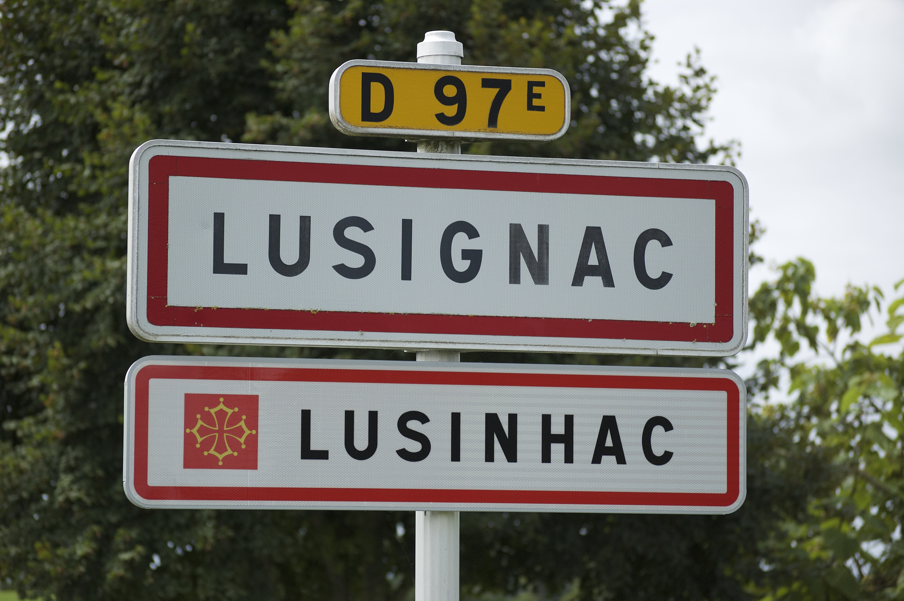 Lusignac, France.